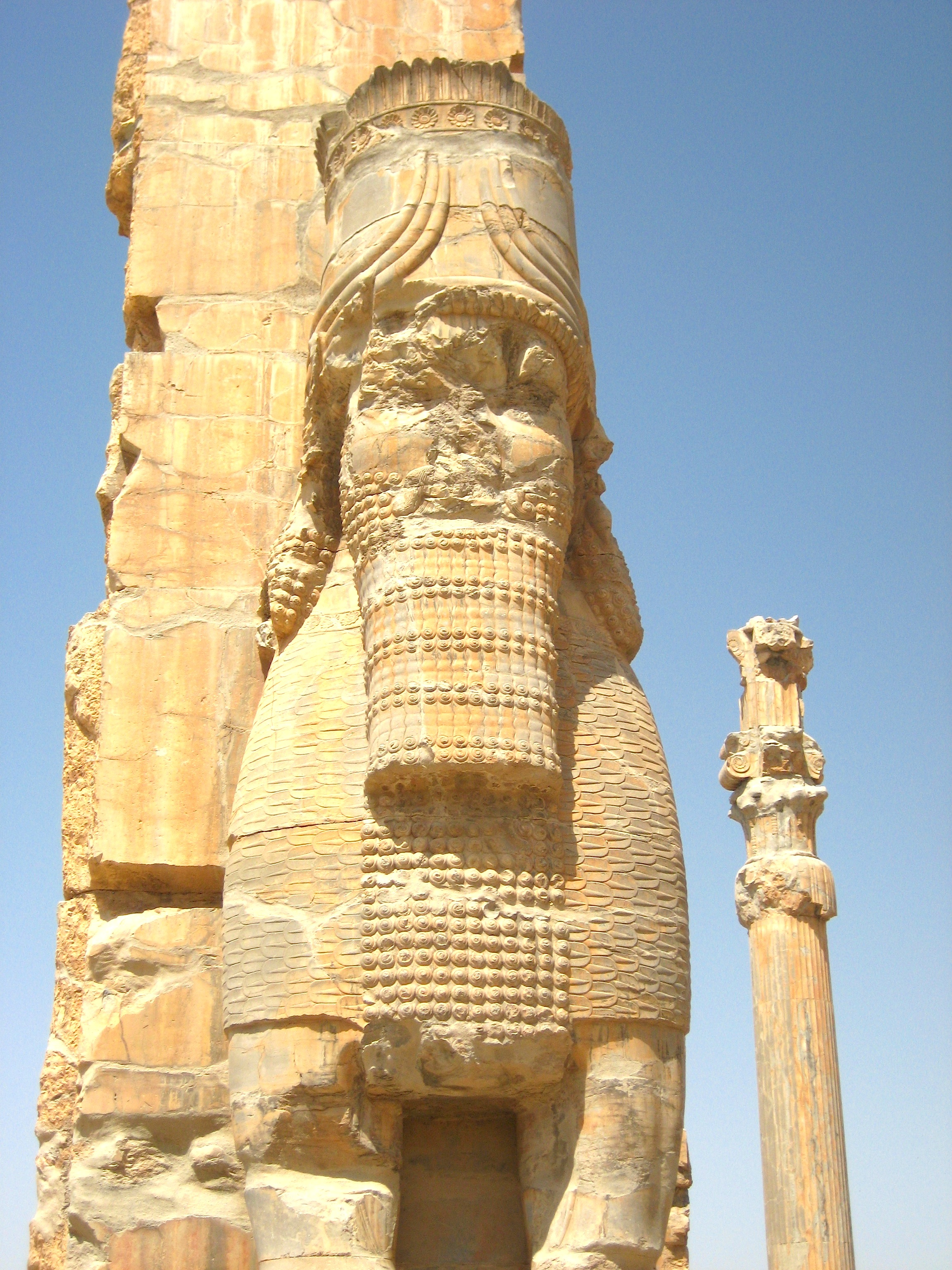 Gate of all nations in Persepolis